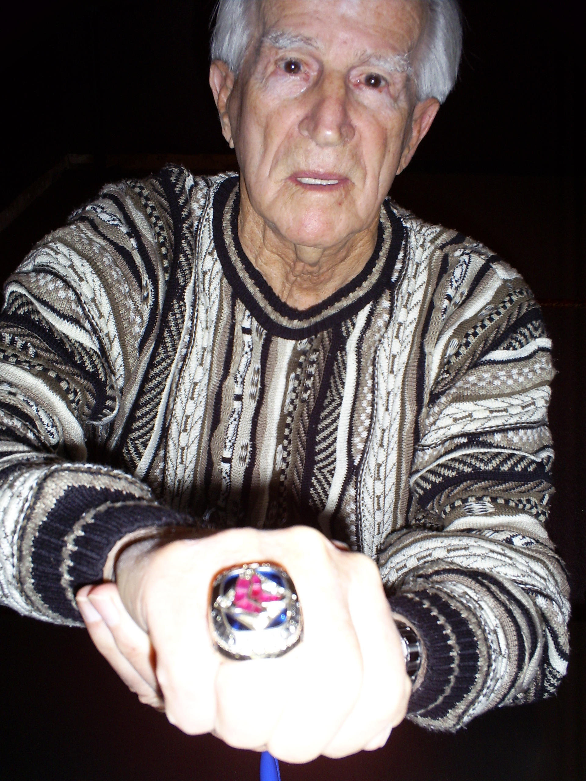 Photo by Craig Michaud. Here is Johnny Pesky showing off his 2007 World Series Ring 20:43, 10 February 2009 . . Thebudman623 . . 1,920×2,560 (1.22 MB)